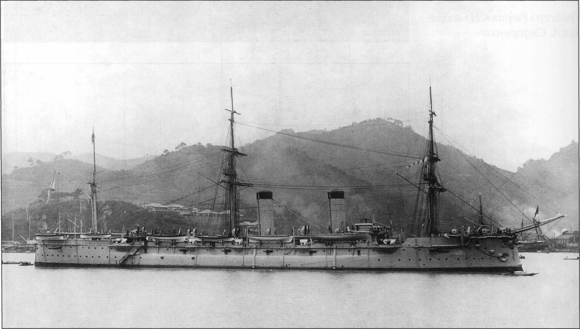 Imperial Russian cruiser Riurik, Nagasaki.